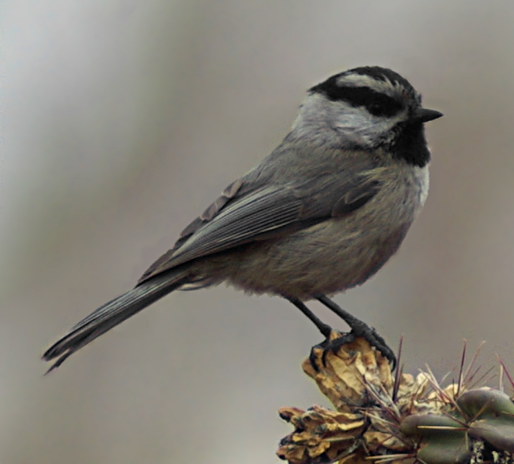 Mountain Chickadee, Poecile gambeli, probably P. g. gambeli, on a cholla, Cylindropuntia imbricata, Española, New Mexico.